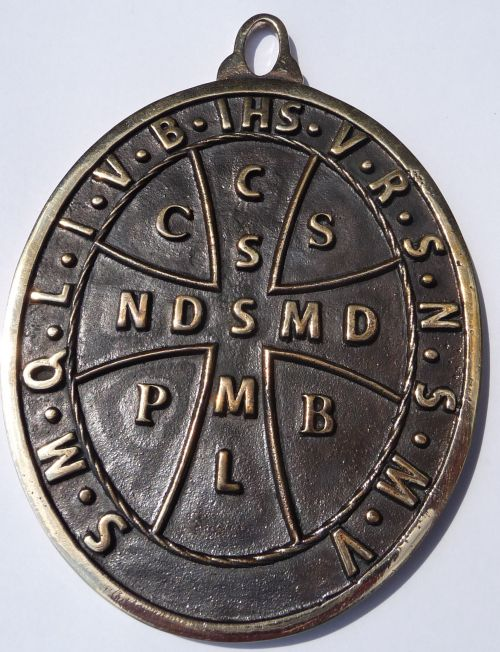 Medallion, St Saint Benedict Cross, Catholic sacramentalium - traditional, classic, original design